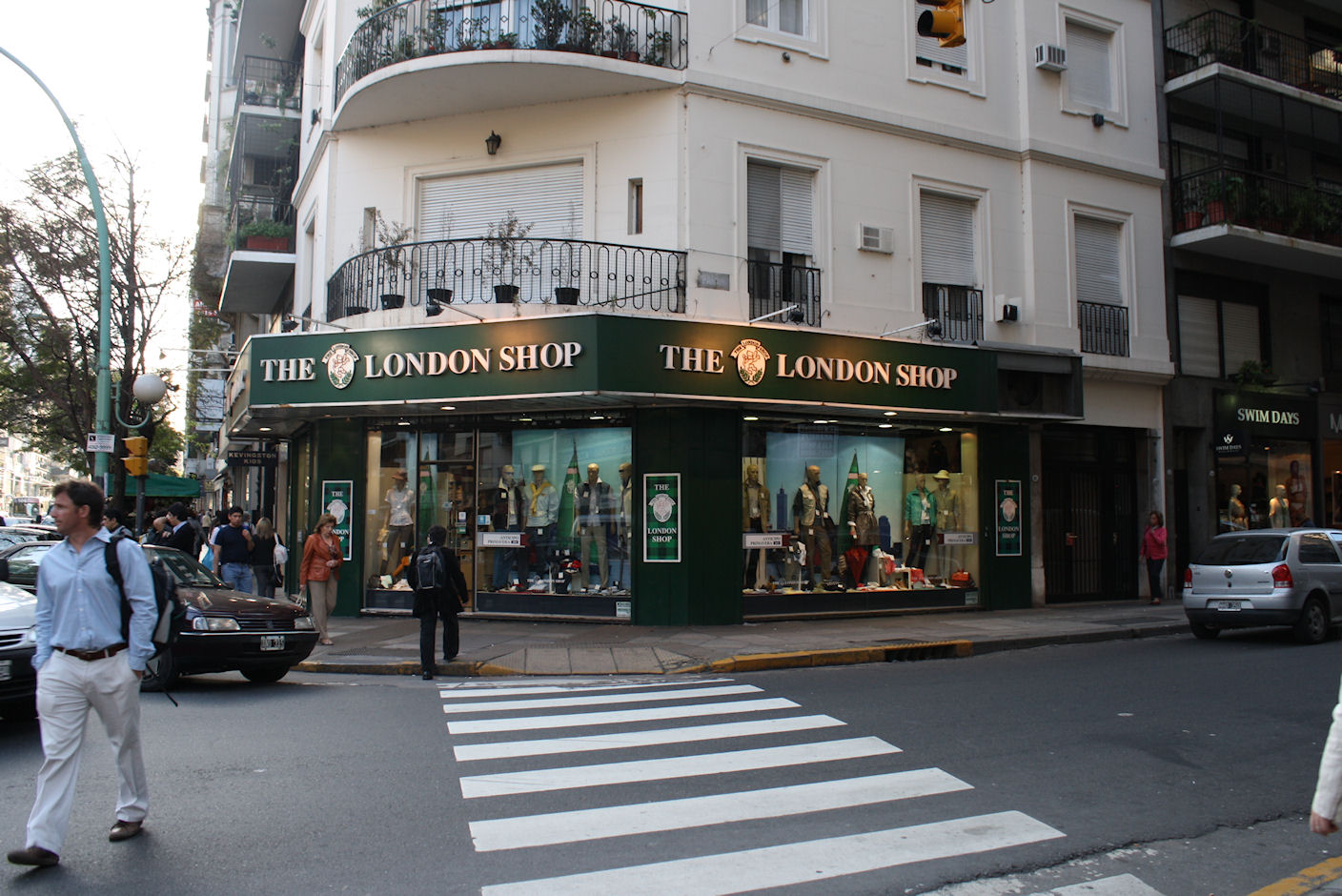 View of retail stores and traffic on the corner of Santa Fe Avenue and Paraná Street, in the Recoleta section of Buenos Aires.